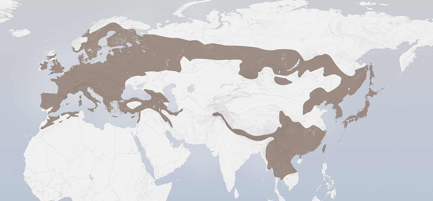 Distribution of the Common Jay (Garrulus glandarius)